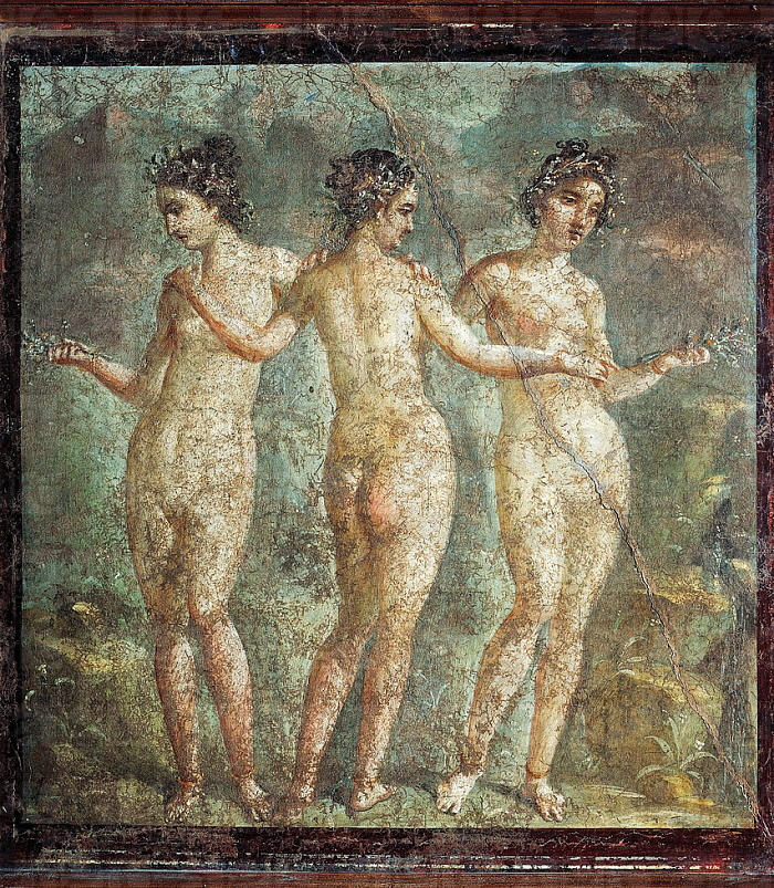 Roman civilization, 1st-century A.D. Fresco depicting the Three Graces. From Pompeii, Italy. Naples, Museo Archeologico Nazionale (Archaeological Museum).